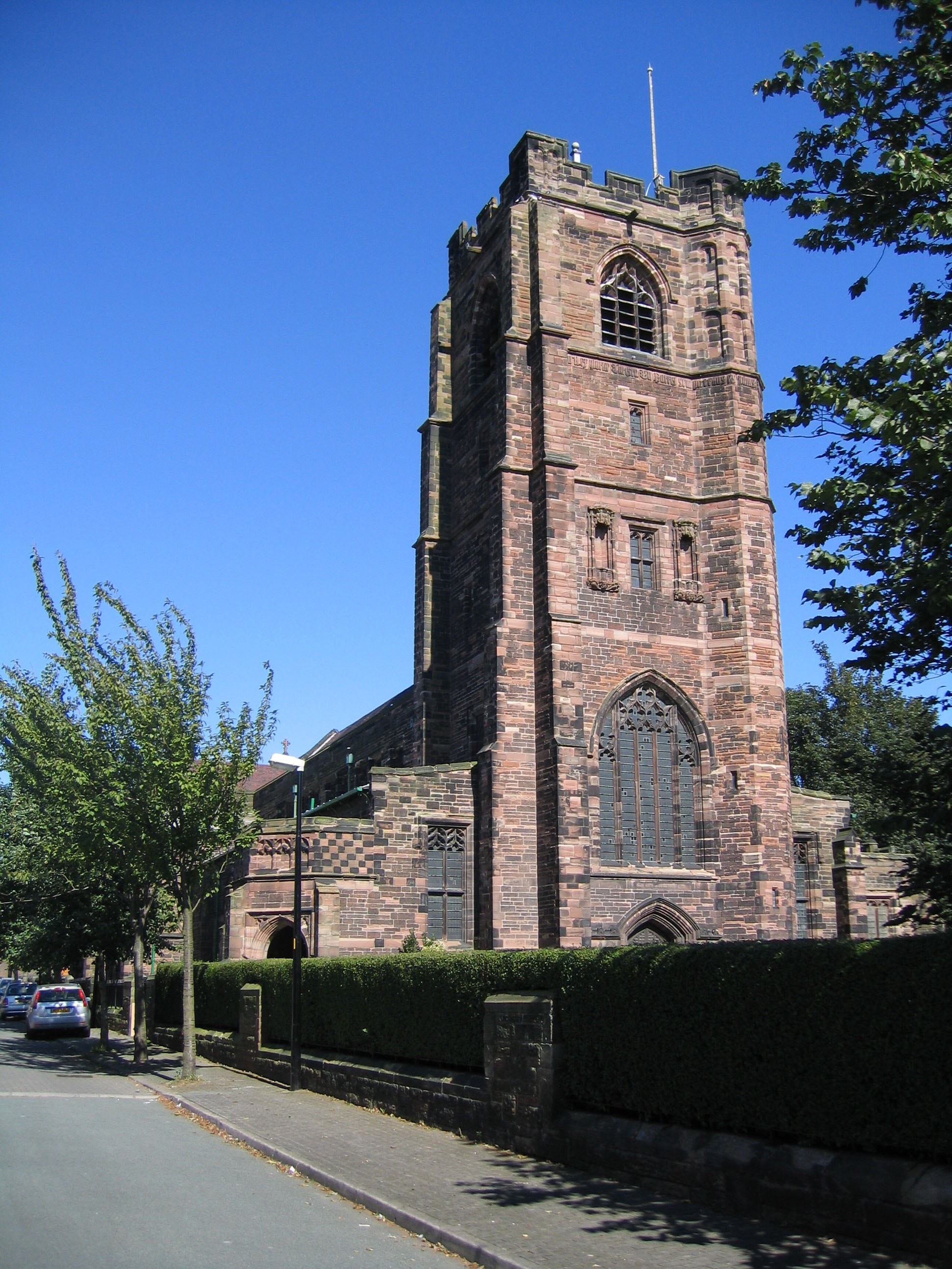 St Mary's parish church, Widnes, Cheshire, seen from the southwest